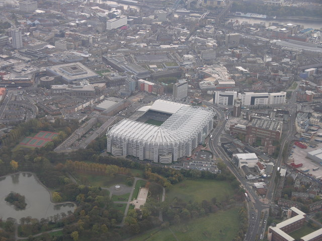 Aerial view of St James Park